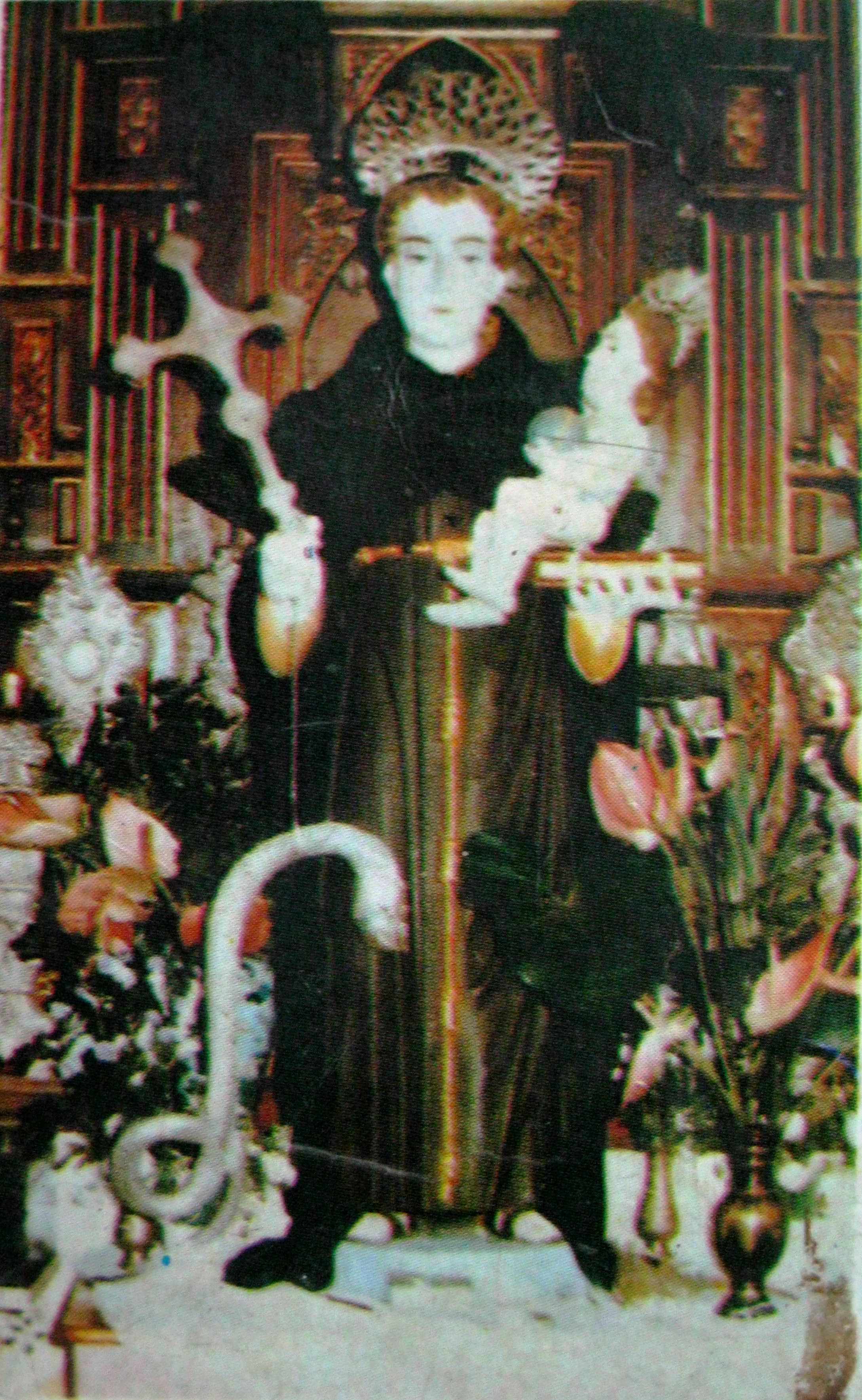 A statue of St. Anthony of Padua in the church of Siolim, Goa. The statue shows St. Anthony holding a snake in a cord, an incident that occurred during the construction of the church.